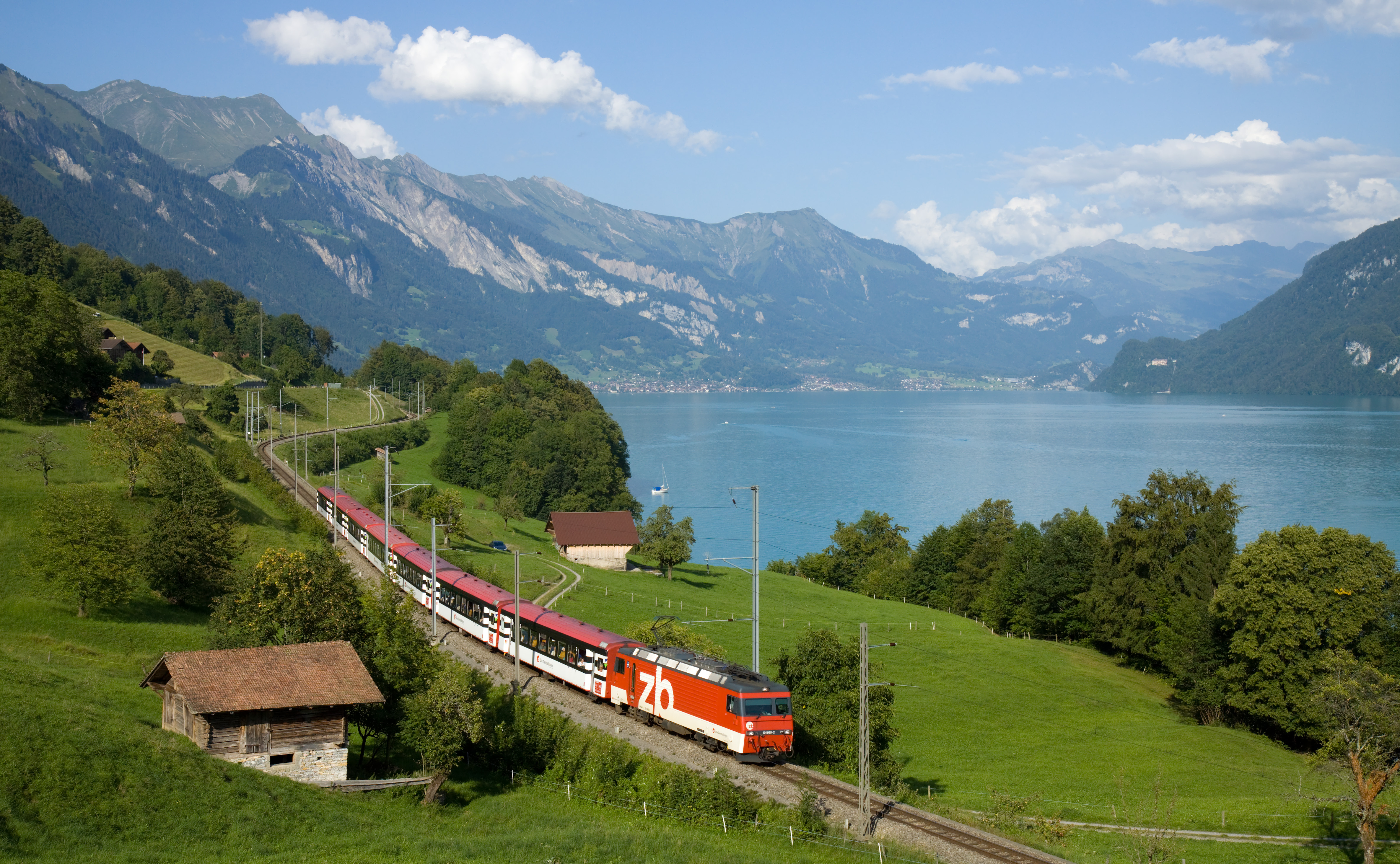 Zentralbahn Interregio train following the Lake Brienz shoreline, near Niederried. The locomotive is a rack-and-adhesion type HGe 101.